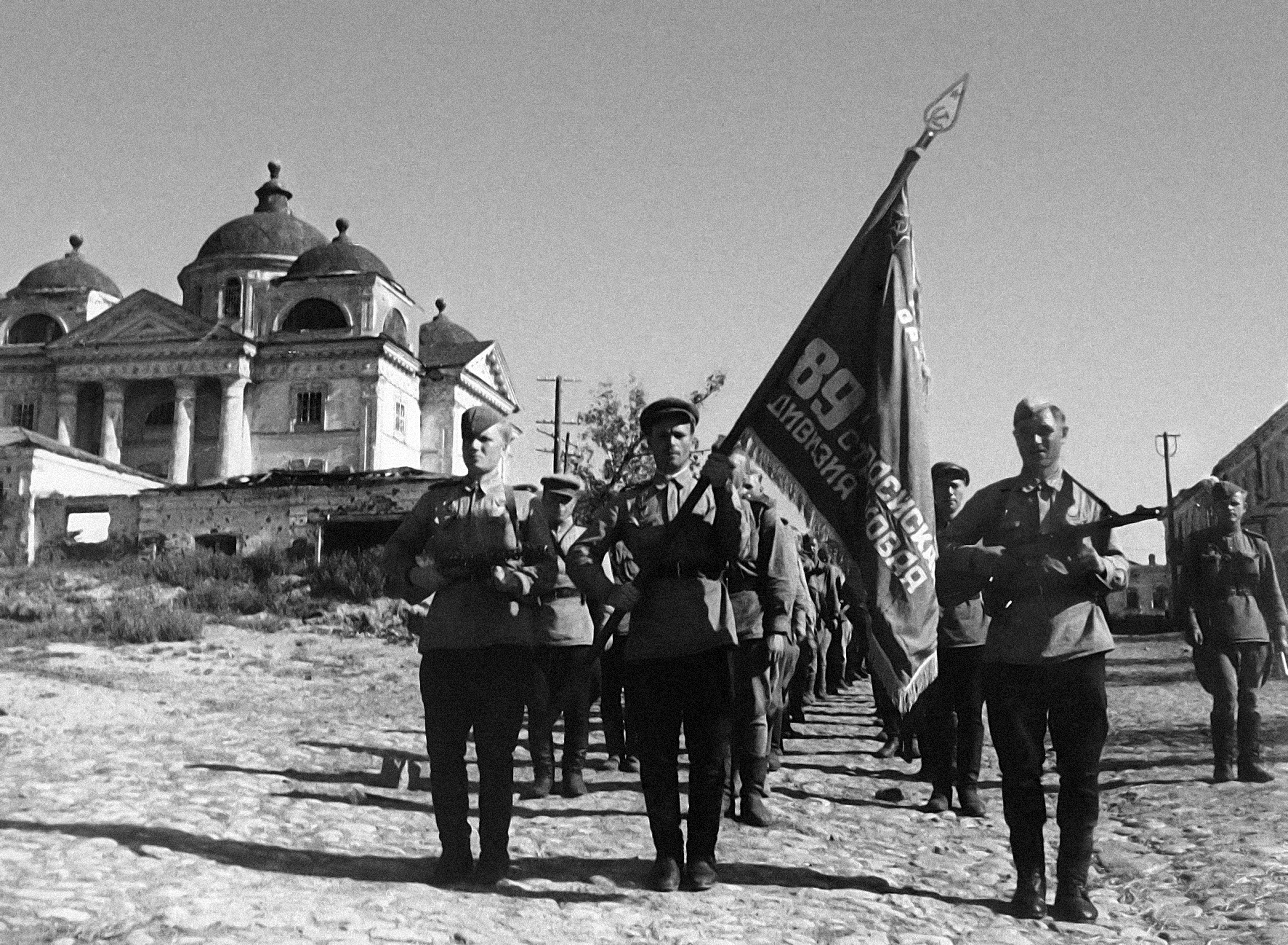 Troops of the 89th Belgorod-Kharkov Guards Rifle Division on the streets of recently recaptured Belgorod